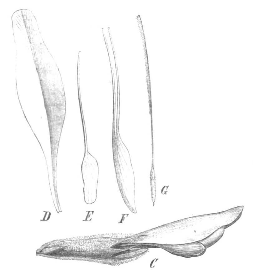 Illustration from book